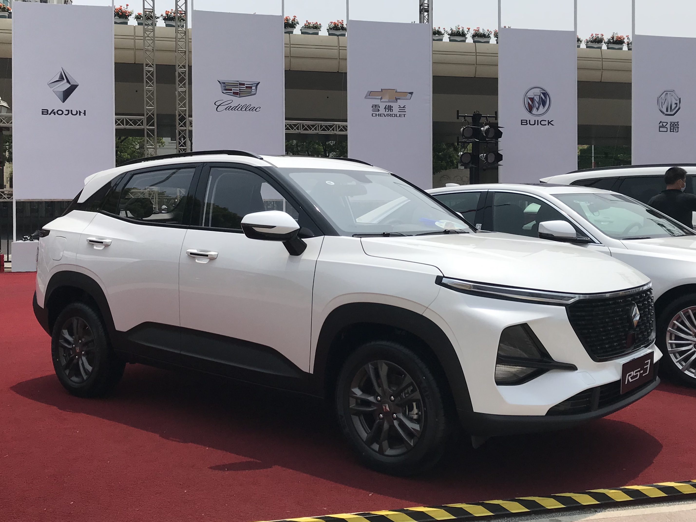 Baojun RS-3